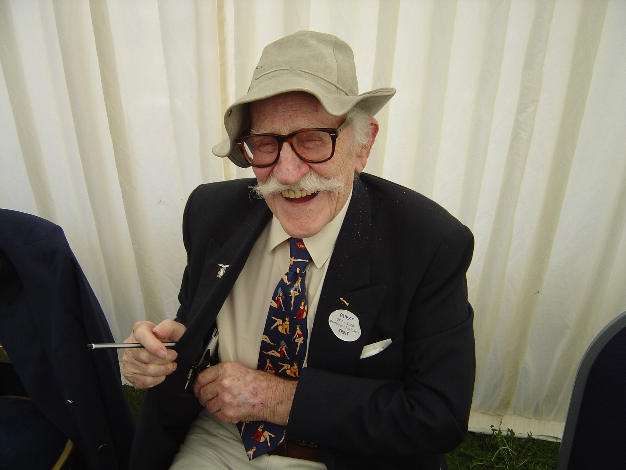 Gerald Stapleton, a British Spitfire fighter ace and Typhoon pilot in the Royal Air Force during World War II, at Duxford air show 2004.